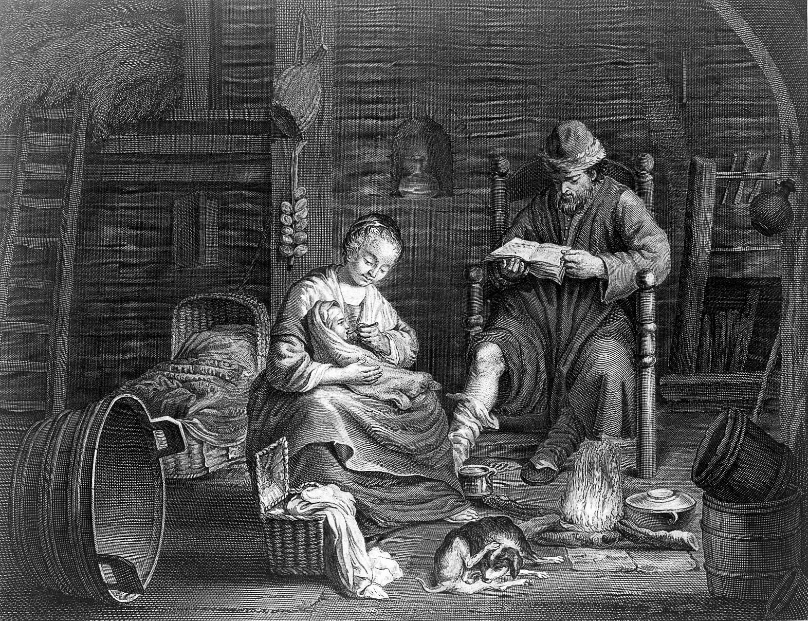 A woman feeding her baby whilst her husband reads a book in a rural domestic environment. Engraving after P. Le Beau ?. Wellcome Images Keywords: Child Care; Pierre Adrien Le Beau